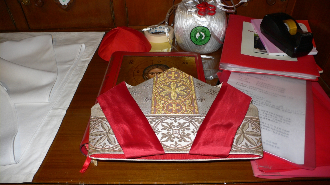 The mitre of Joseph Zen Ze-Kiun, the cardinal of Hong Kong